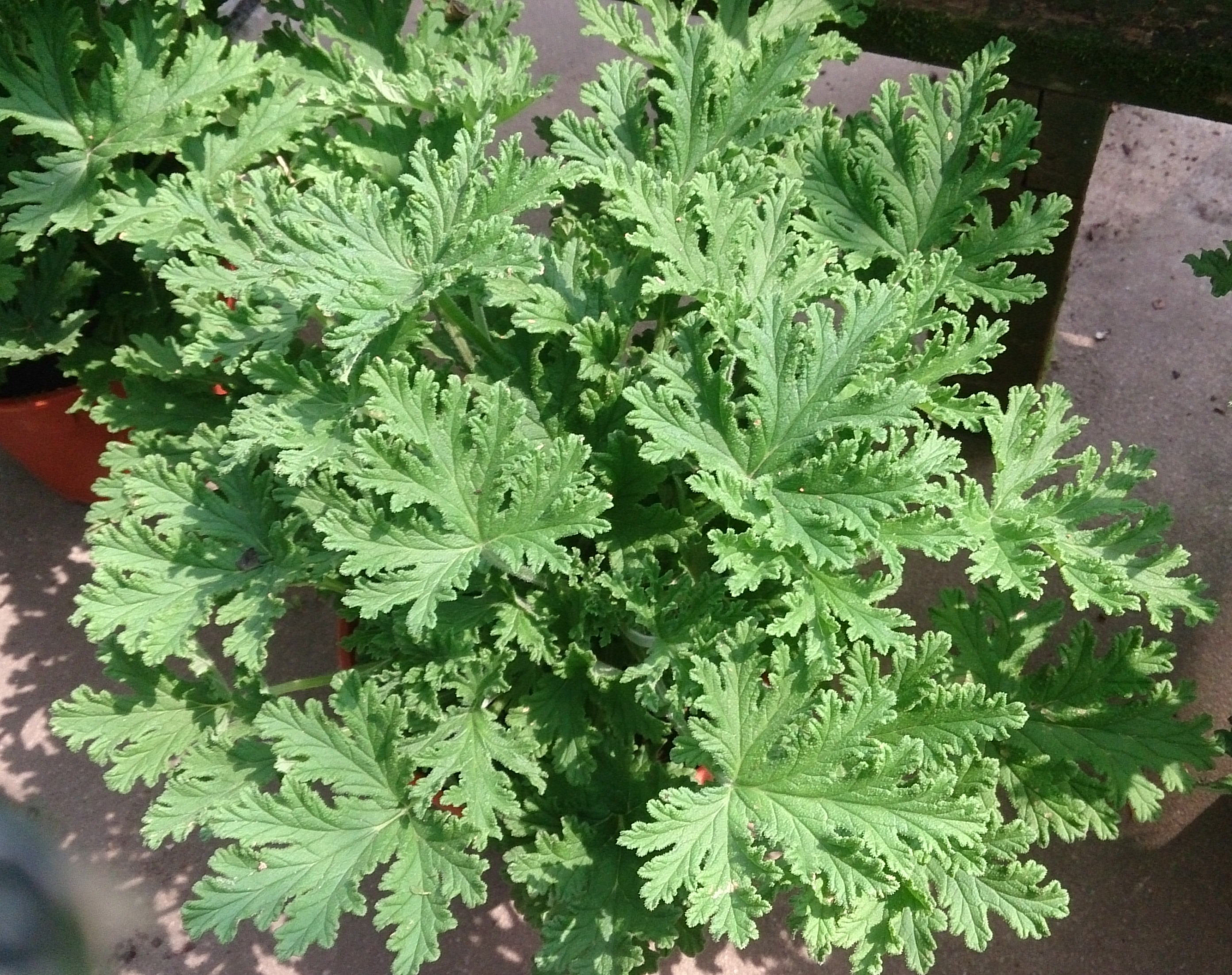 Pelargonium citrosum. Commonly known as "Mosquito Plant" or "Citrosa". Often incorrectly labeled as "Citronella" (which is a type of grass called Cymbopogon nardus). This plant is often incorrectly marketed as an anti-mosquito plant, but apparently it has no mosquito repellent characteristics.